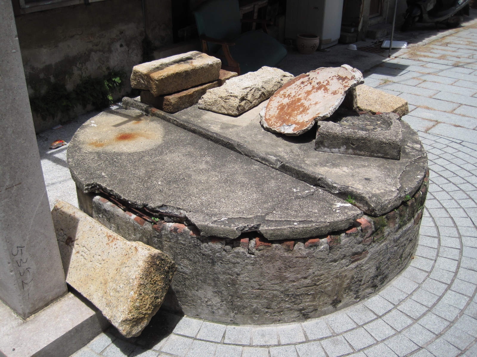 A historical well in Tainan City, Taiwan.